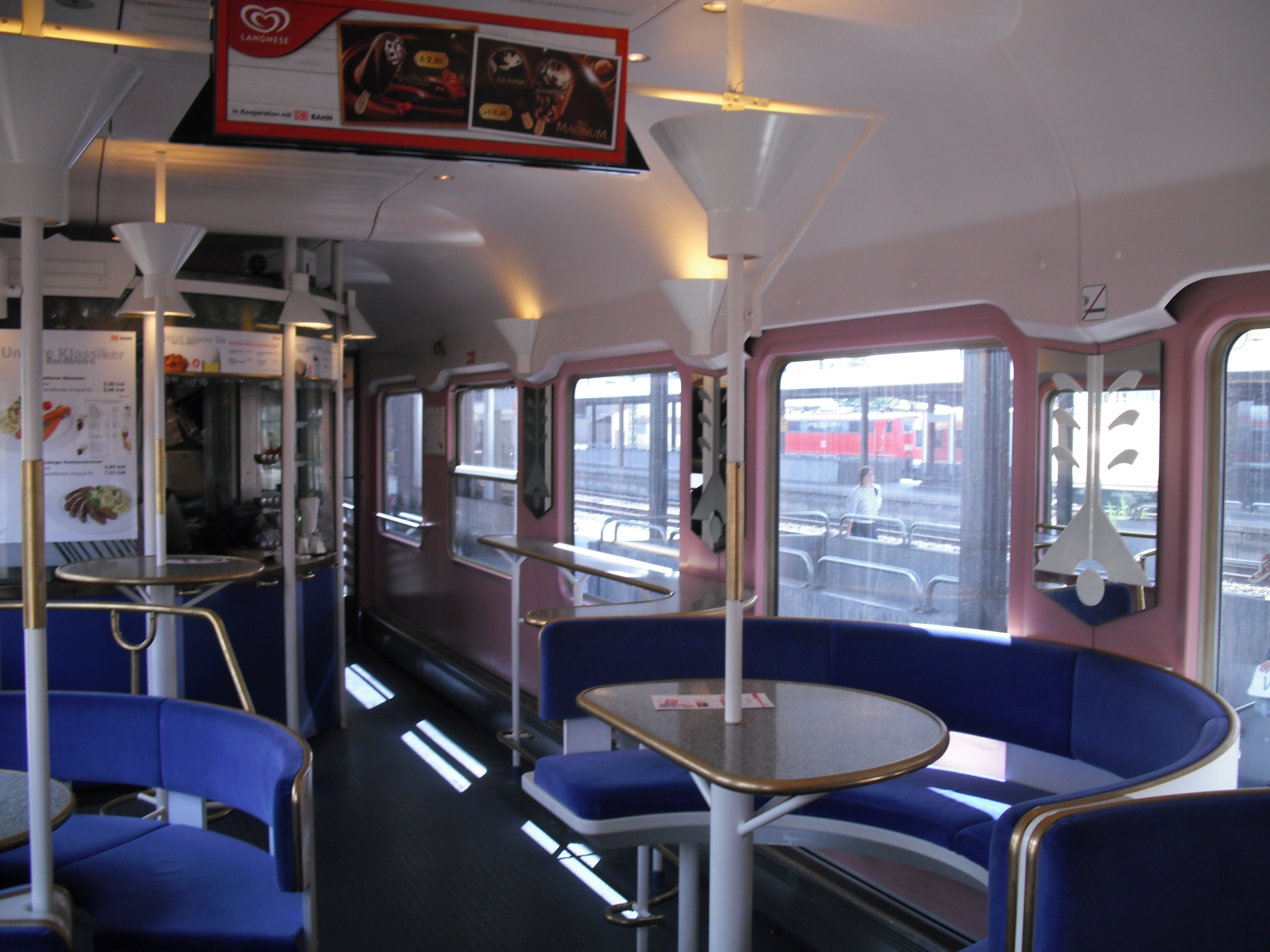 Interior of a DB Bord Bistro